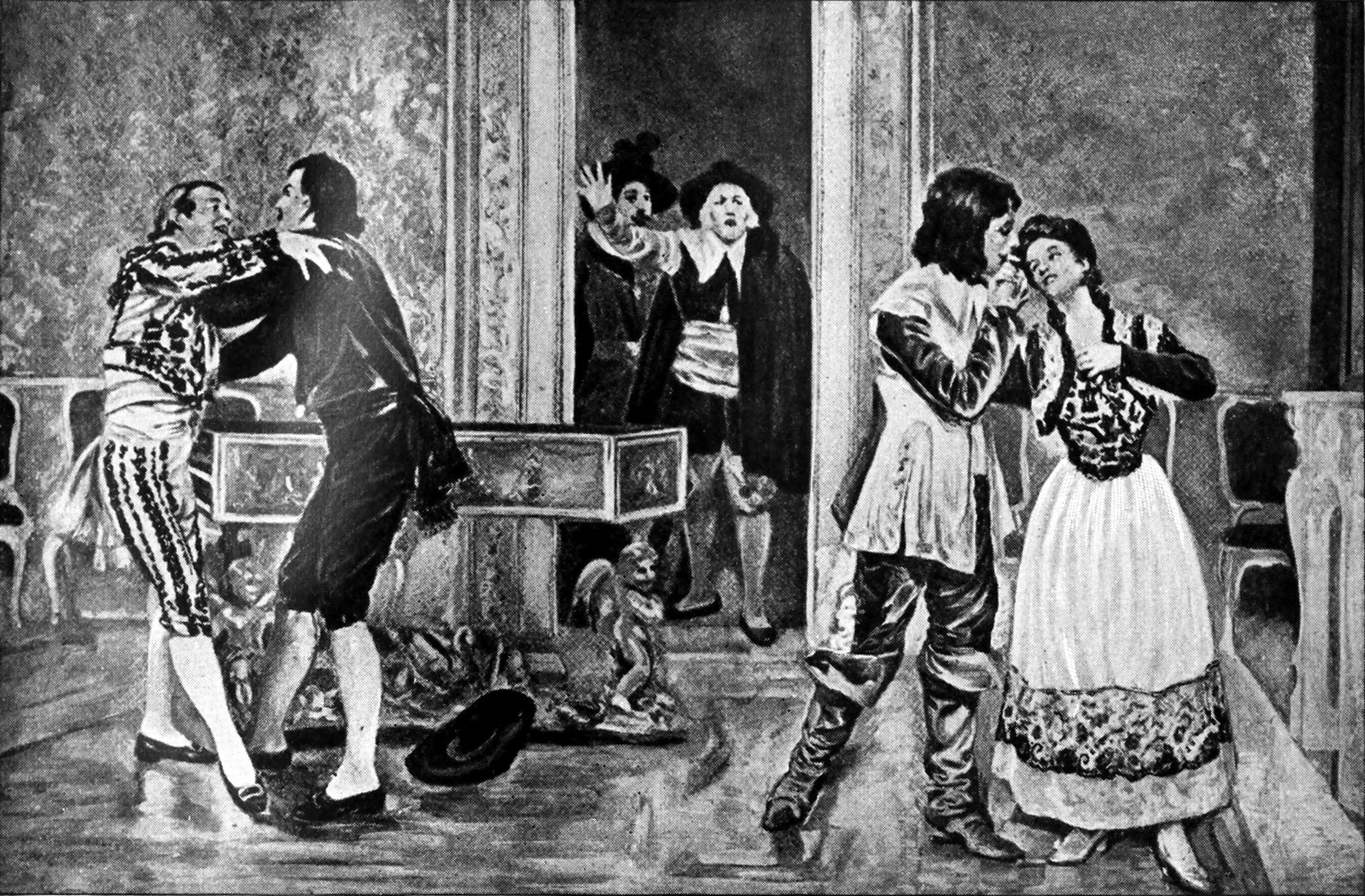 Il barbiere di Siviglia - Bartolo arrives with the soldiers - Finale, Act II Title: The Victrola book of the opera : stories of one hundred and twenty operas with seven-hundred illustrations and descriptions of twelve-hundred Victor opera records Year: 1917 (1910s) Authors: Victor Talking Machine Company Rous, Samuel Holland Subjects: Operas Publisher: Camden, N.J. : Victor Talking Machine Co. Text Appearing Before Image: * Double-Face J Record—See page 3 8. 37 VICTROLA BOOK OF THE OPERA—BARBER OF SEVILLE Text Appearing After Image: BARTOLO ARRIVES WITH THE SOLDTERS FINALE, ACT II This scene is rudely interrupted by the arrival of Bartolo and the soldiers. The officerin charge demands the name of the Count, who now introduces Signor and Signora Almavivato the company. Bartolo philosophically decides to make the best of the matter. However,he inquires of Basilio : UARTOLO I But you, you rascal— Even you to betray me!Basilio: Ah! Doctor, The Count has certain persuasives And certain arguments in hispocket. Which there is no withstanding!Bartolo : Ay, ay! I understand you.Well, well, what mattersGo; and may Heaven bles it?you! Figaro: Bravo, bravo, Doctor!Let me embrace you! Rosina: Oh, how happy we are!Count: Oh. propitious love!Figaro: Young love, triumphant smiling, All harsher thoughts exiling, All quarrels reconciling (Curtain) Now waves his torch on high! DOUBLE-FACED BARBER OF SEVILLE RECORDS By Pryors Band\35125By Pryors BandfBy La Scala Orchestral 6g010By La Scala Orchestra) rarber of Seville SelectionPro